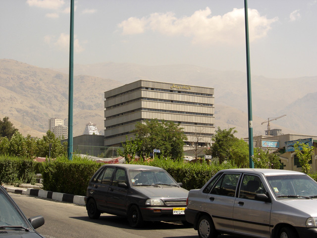 I Zereshk, took this photo on Aug 1, 2005.